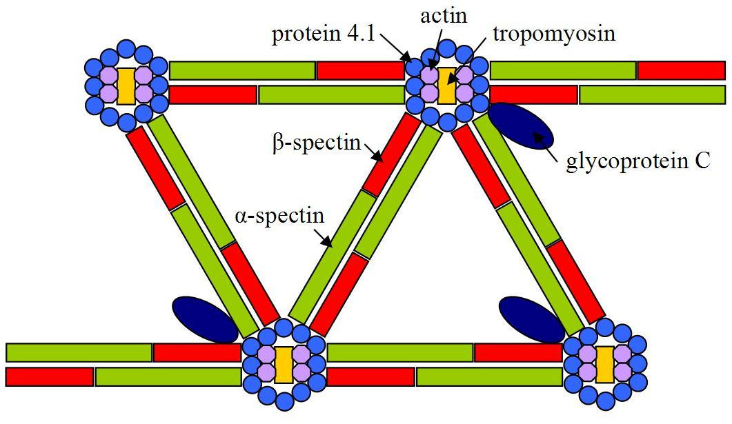 Cytoskeleton (Elliptocytosis) - Conversion in PNG by User:TheNewMessiah.